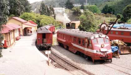 Silver Stream Railway, New Zealand; railcar in the station